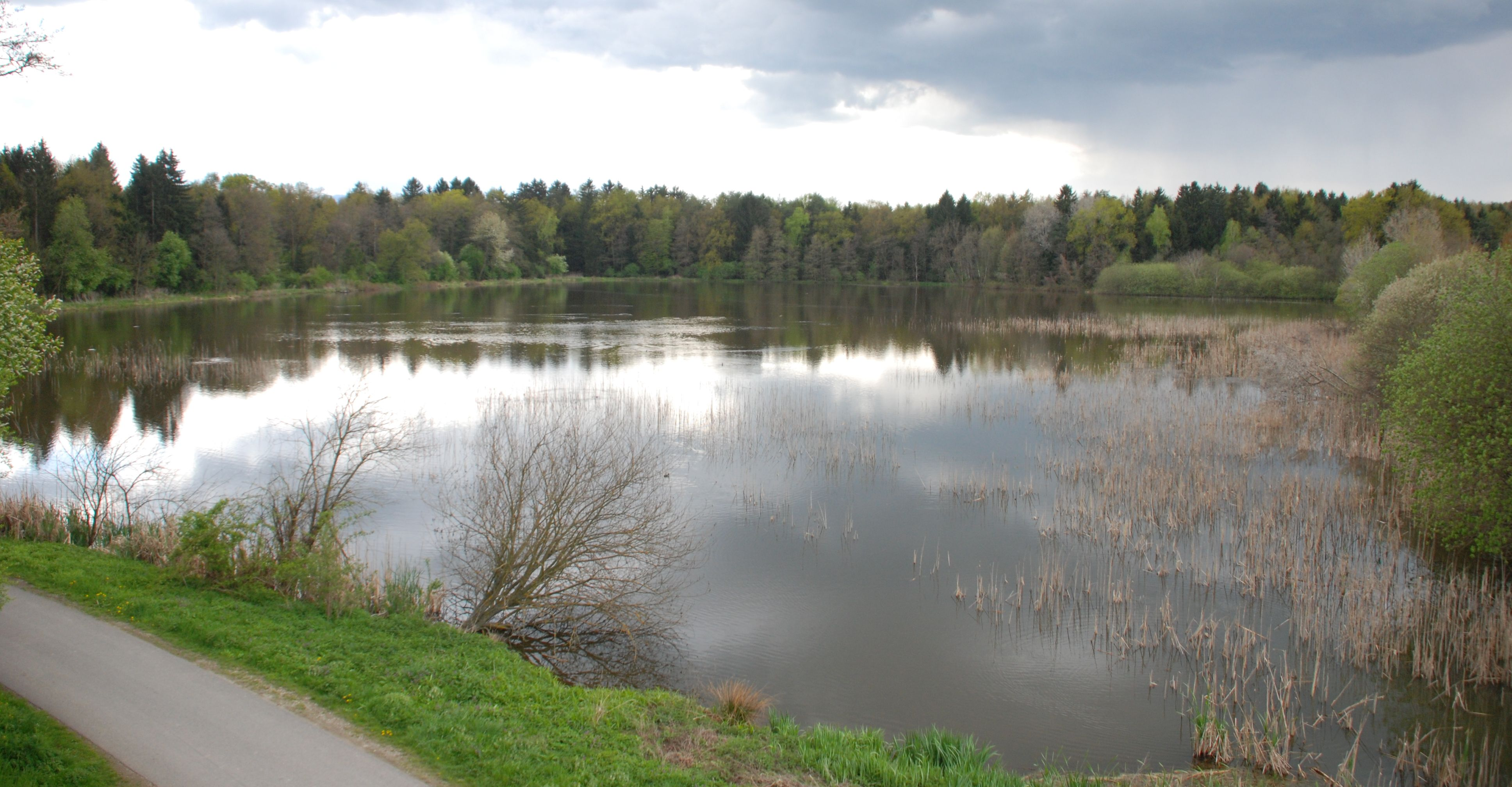 Little Pond, the smallest of Rače Ponds